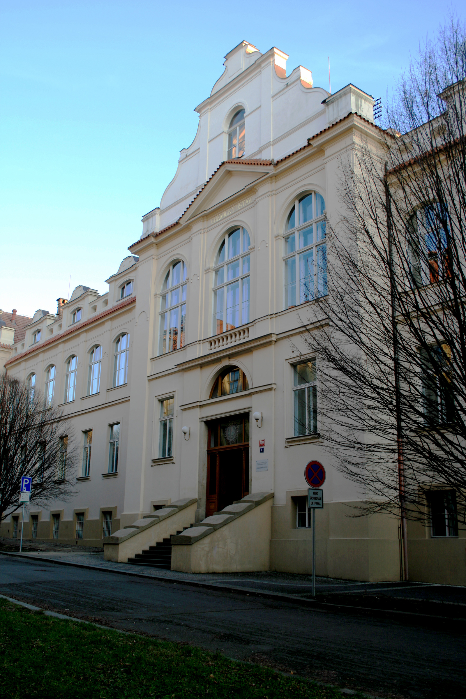 Building of chemistry, Faculty of Natural Sciences, Charles University, Albertov, Prague